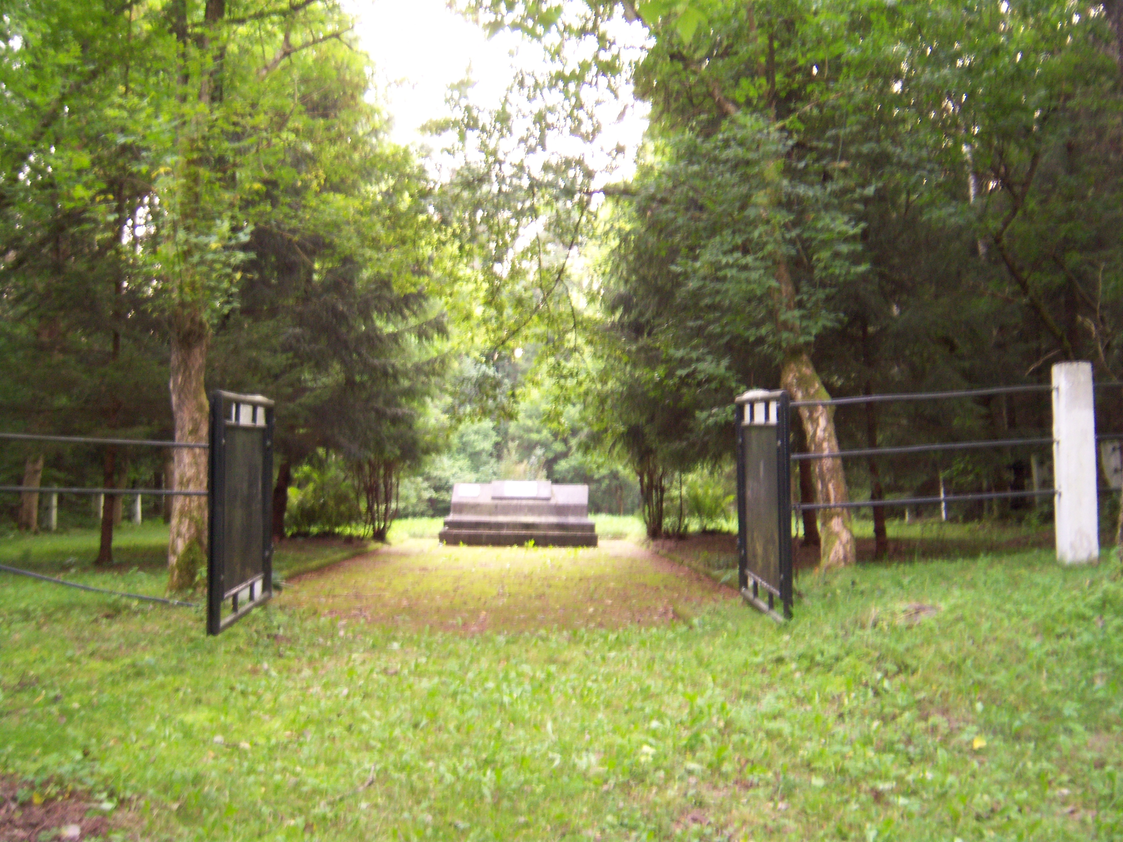 Holocaust in 1941.08.28: commemoration monument to 3500 victims from settlements of Vilkija, Veliuona, Seredžius and Raudonė in a forest near Jaučakiai, Kaunas district, Lithuania